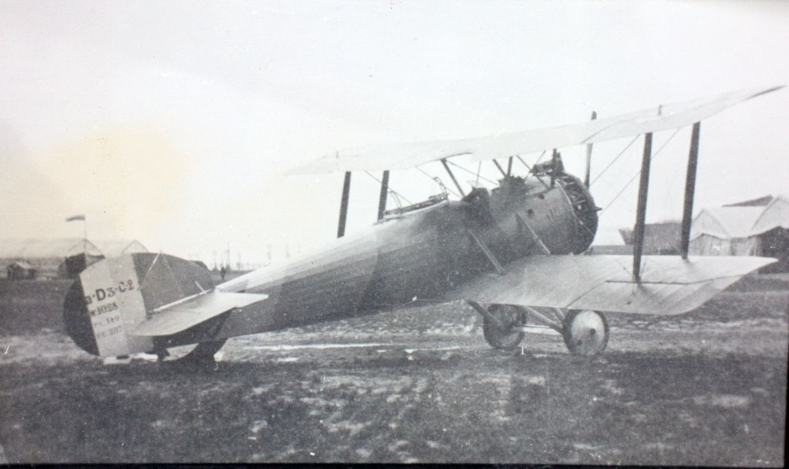 Hanriot HD.3 C.2